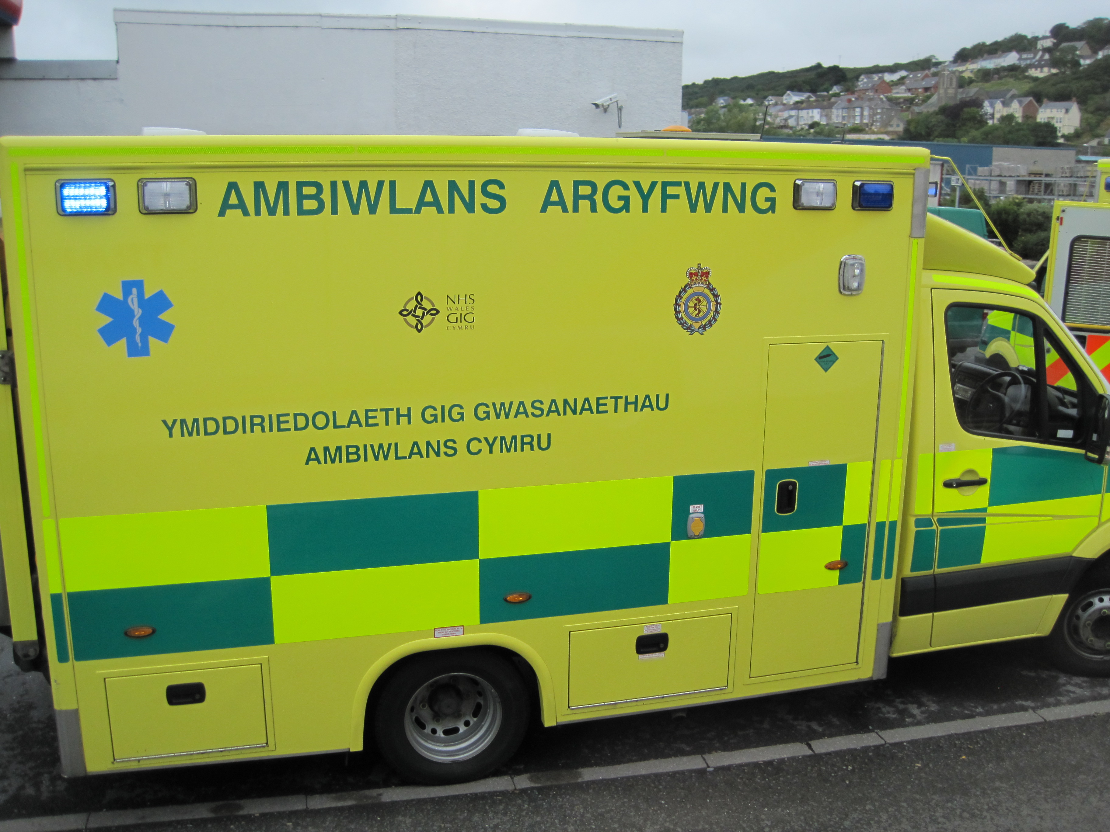 A Welsh Ambulance Service Trust Mercedes Benz 519 Sprinter Ambulance in Fishguard, Wales